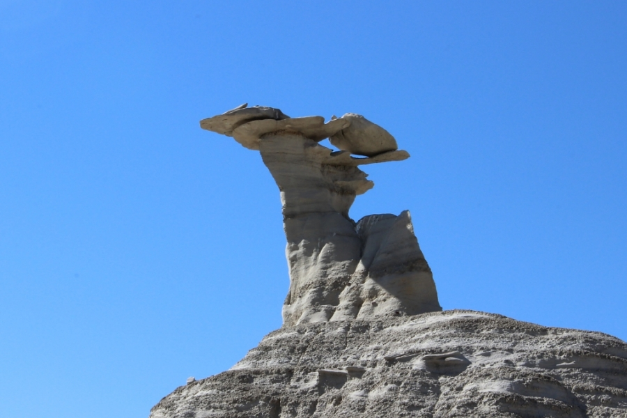 Located in the Ah-Shi-Sle-Pah Wilderness Study Area